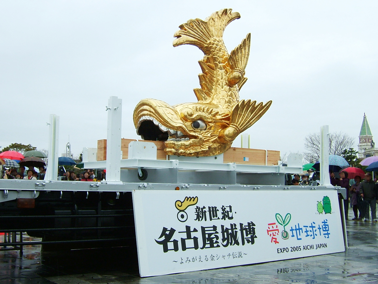 Nagoya Castle Golden Shachi-Hoko A Filly.